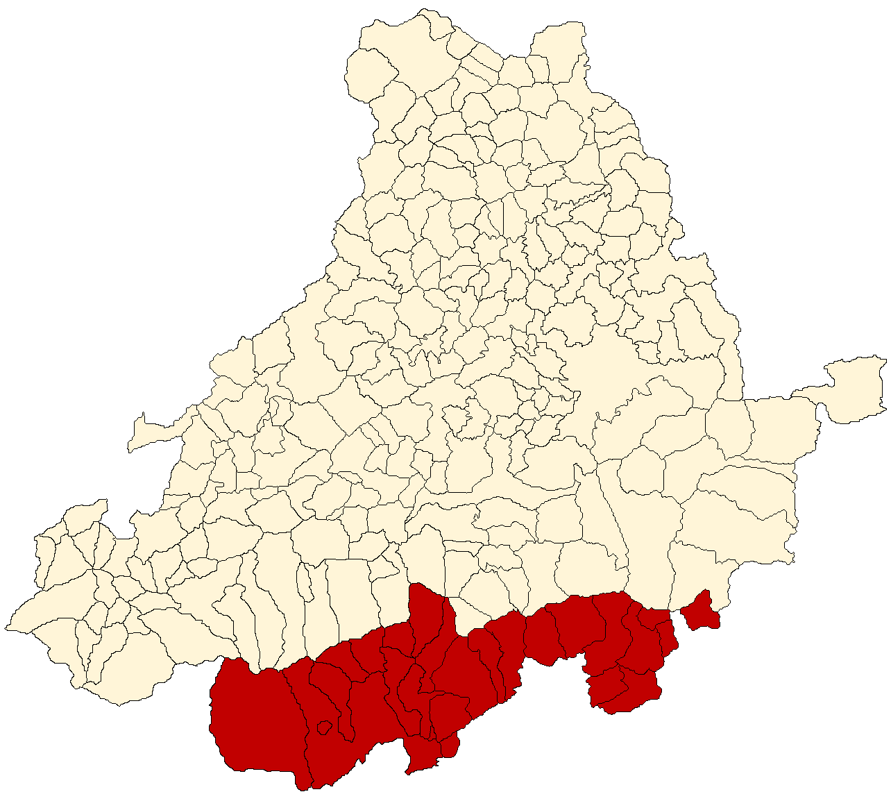 Map of region of Arenas de San Pedro, Province of Ávila, Spain.